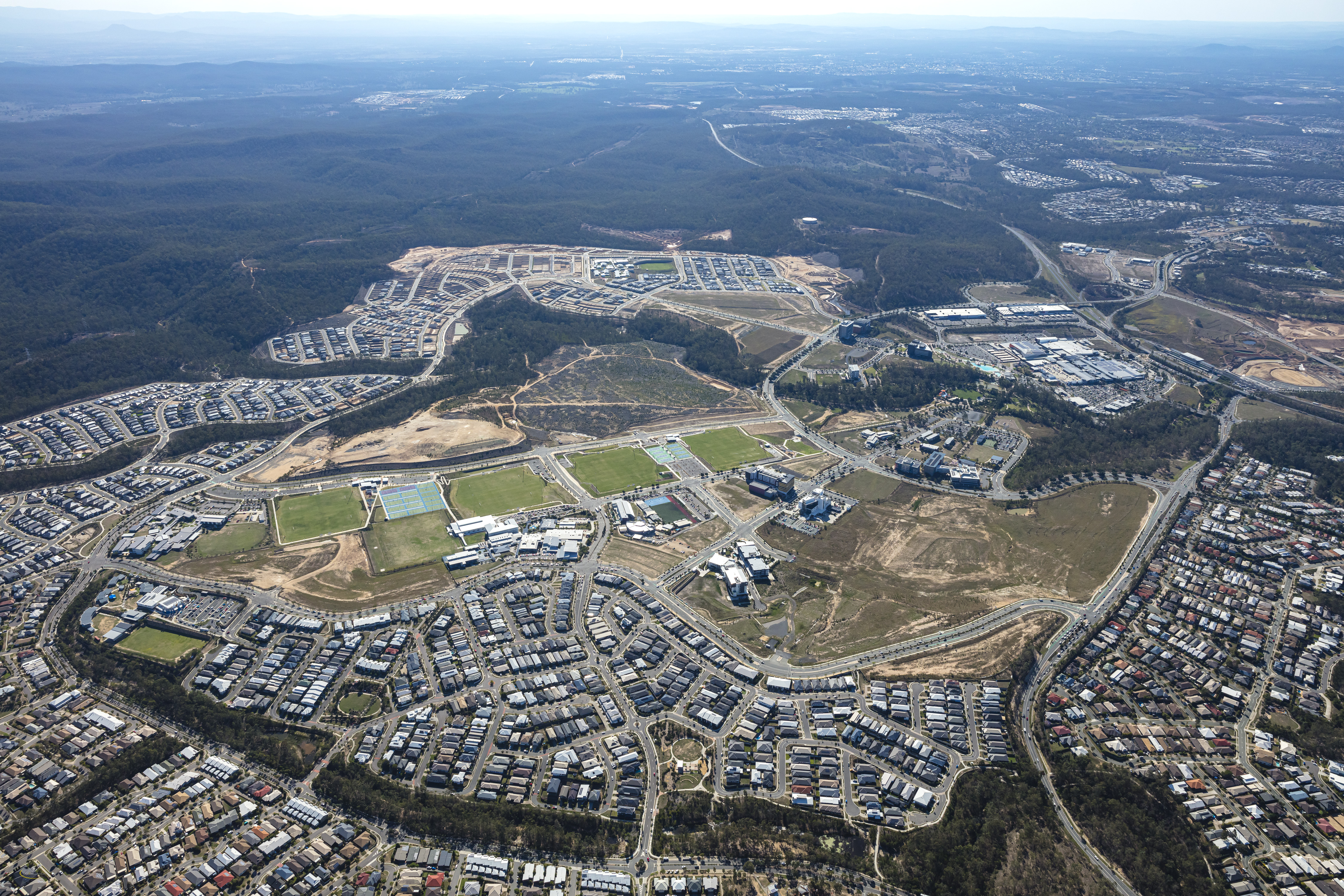 Springfield Central from above